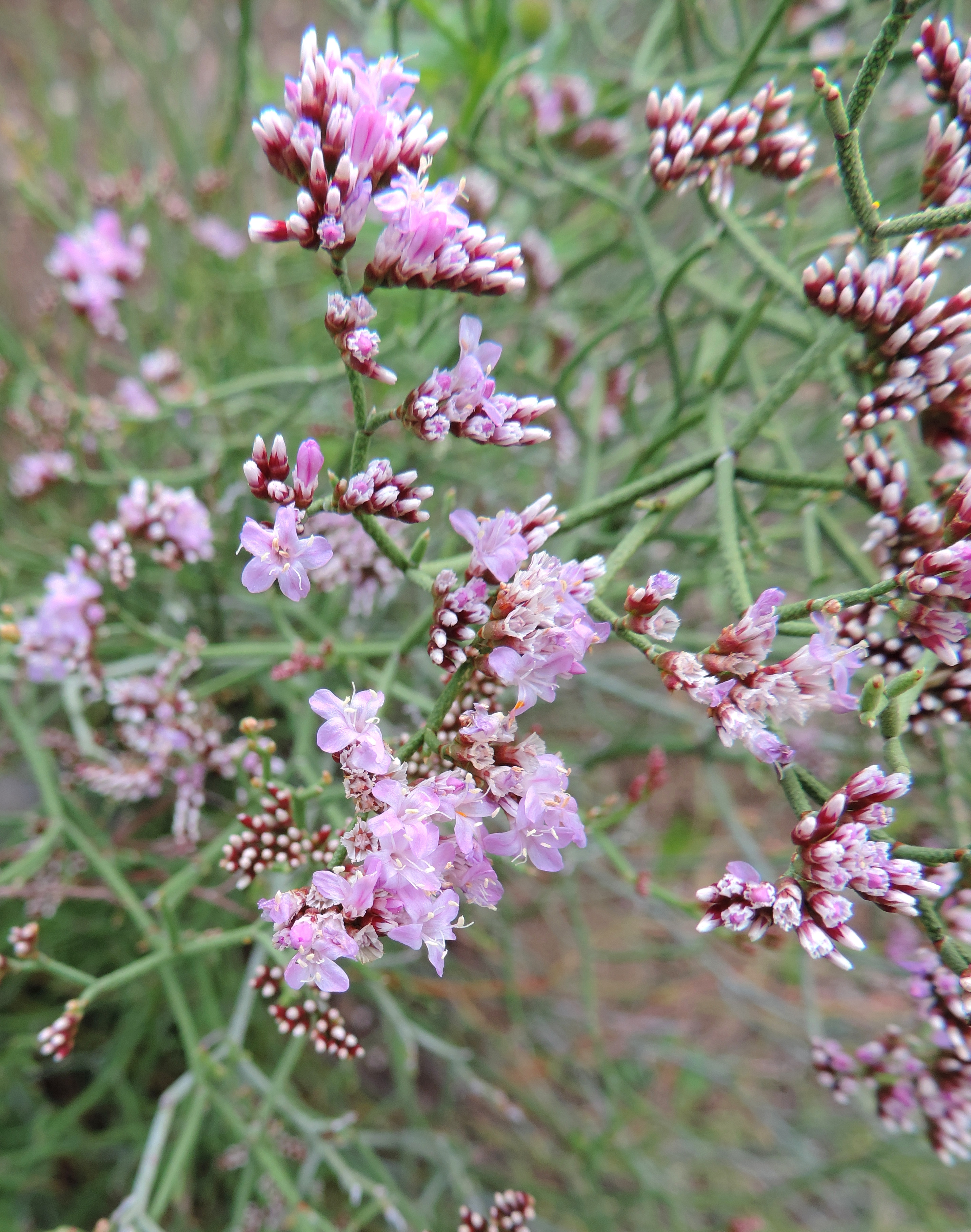 Limonium tuberculatum in Jardín Botánico Canario Viera y Clavijo